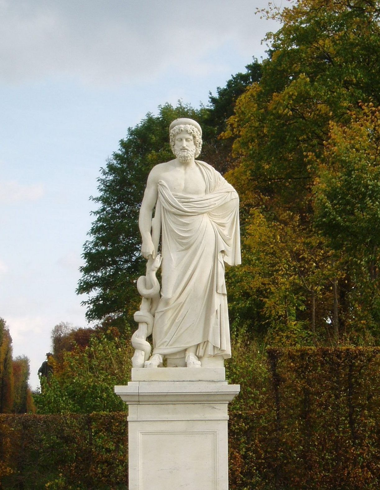 Aesculapius with snake staff. Sculpture by Alessandro and Francesco Sanguinetti. Between 1848 and 1859. Half rondel Neues Palais, Potsdam, Germany